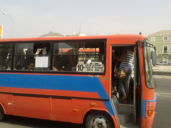 Transcor SA is the bus company on São Vicente Island, Cape Verde